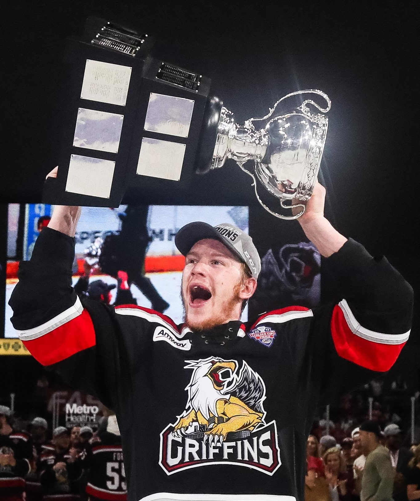 Photo: Sam Iannamico